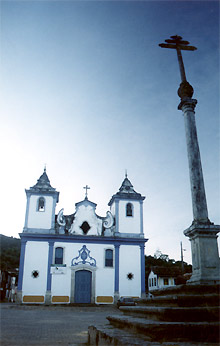 Churches in the district of Furquim, Minas Gerais, Brazil.